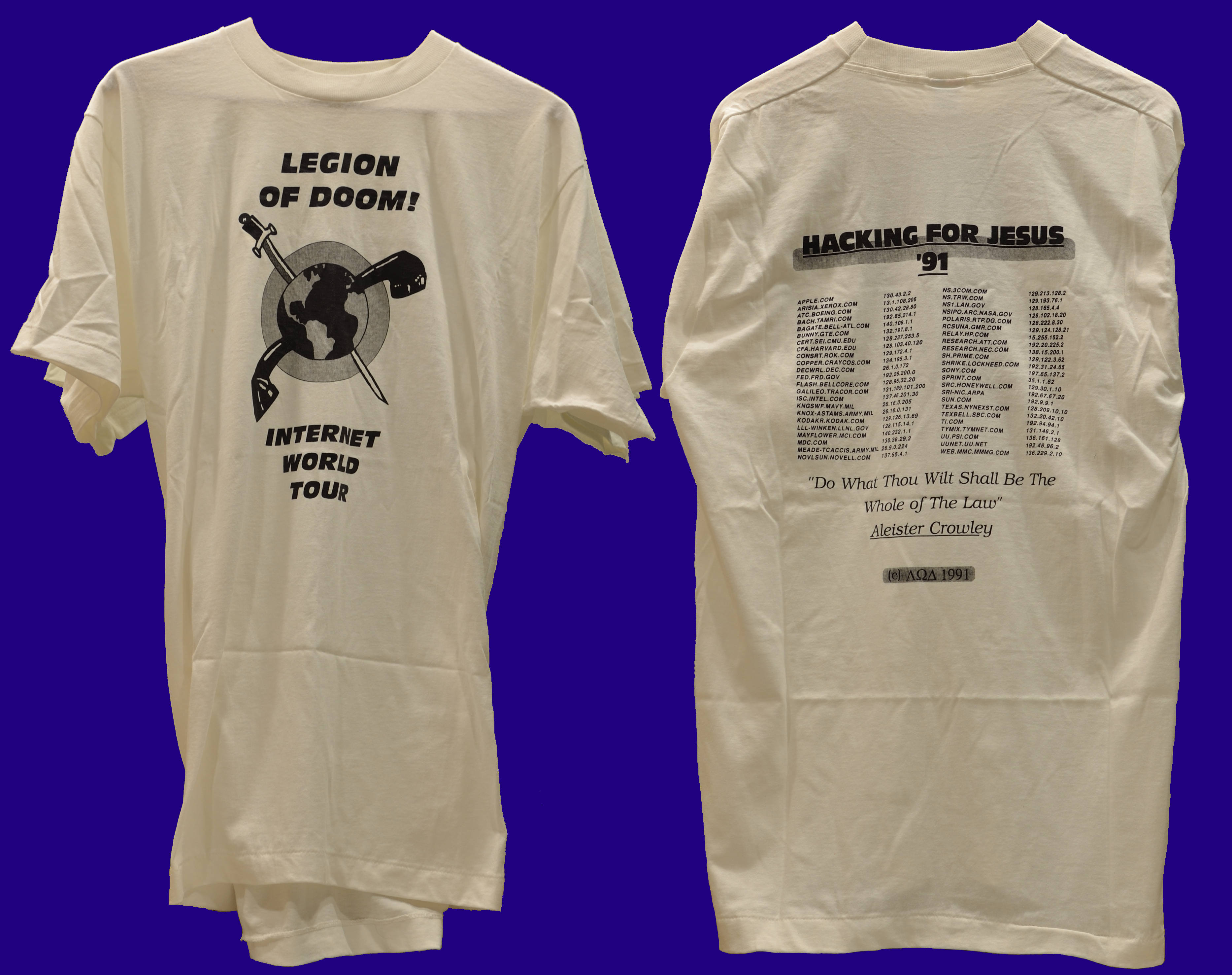 Legion of Doom "Hacking for Jesus" T-Shirt created by Chris Goggans in 1991 and sold at SummerCon.